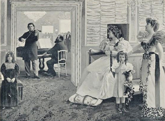 Eugène Ysaÿe (1858-1931) and Raoul Pugno (1852-1914) at a private recital